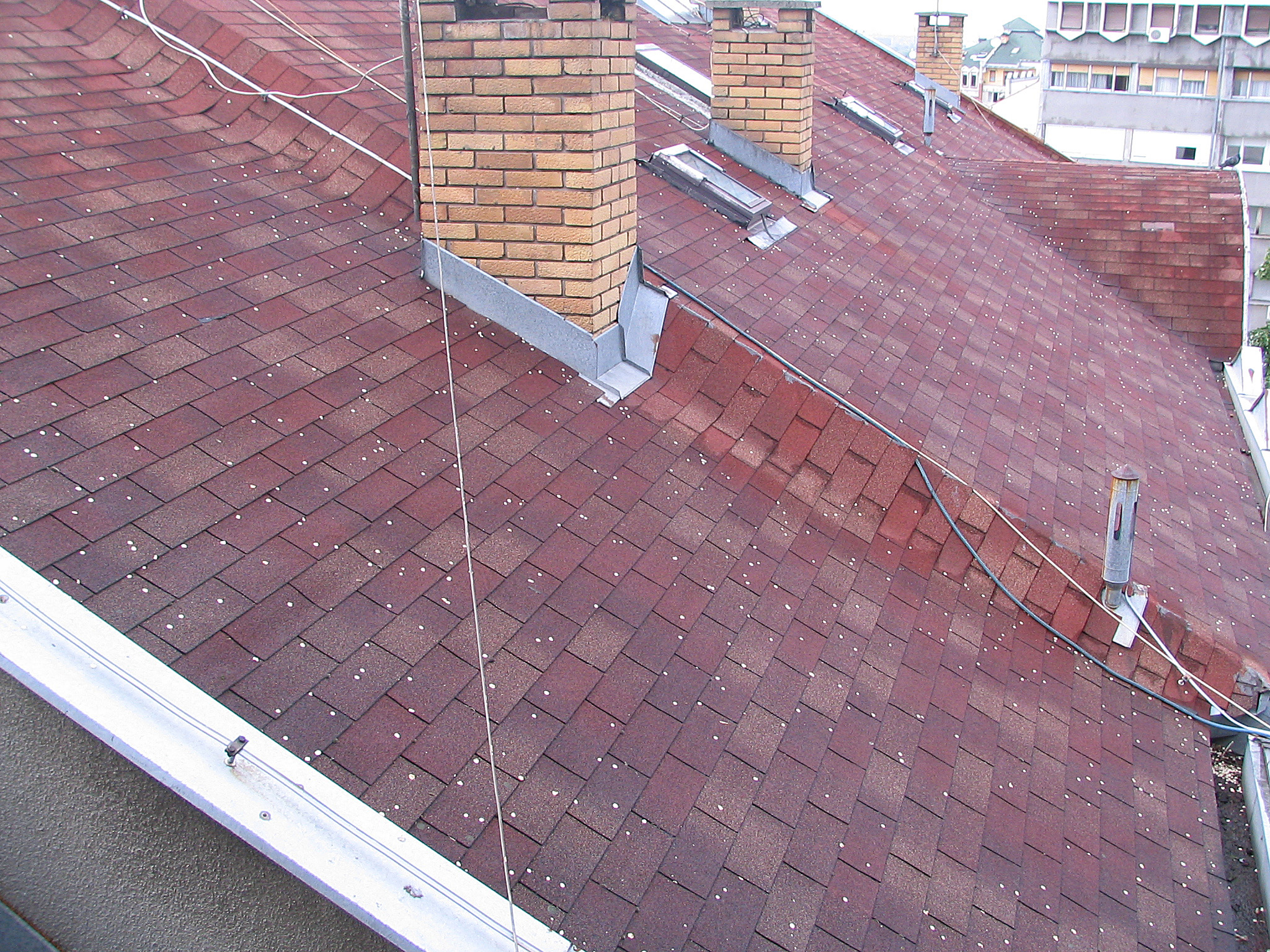 Tegola roof cover